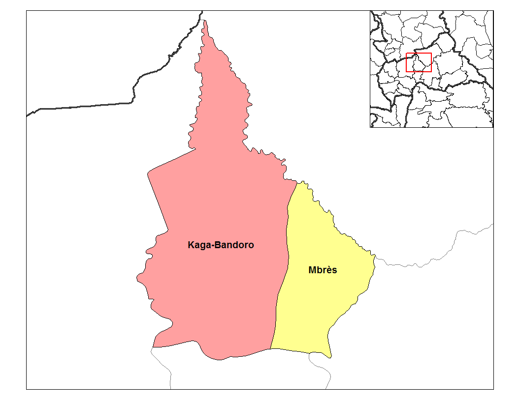 Map of the sub-prefectures of Nana-Grebizi economic prefecture in the Central African Republic. Created by Rarelibra 20:28, 31 August 2006 (UTC) for public domain use, using MapInfo Professional v8.5 and various mapping resources.